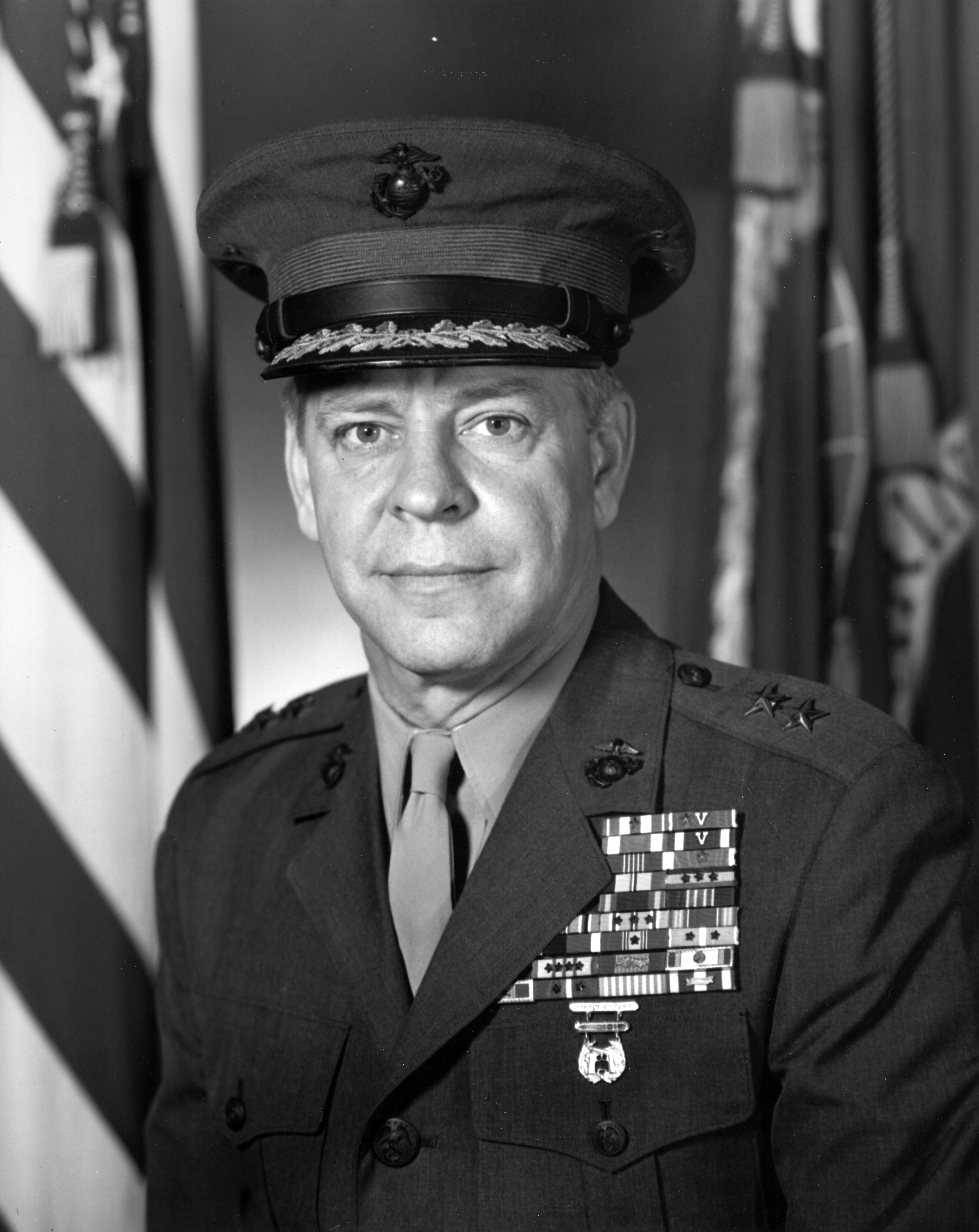 Robert Dewey Bohn (November 30, 1921 – November 3, 2002) was a highly decorated officer of the United States Marine Corps, reaching the rank of major general. He served in three wars and concluded his career as Commanding General of Marine Corps Base Camp Lejeune.